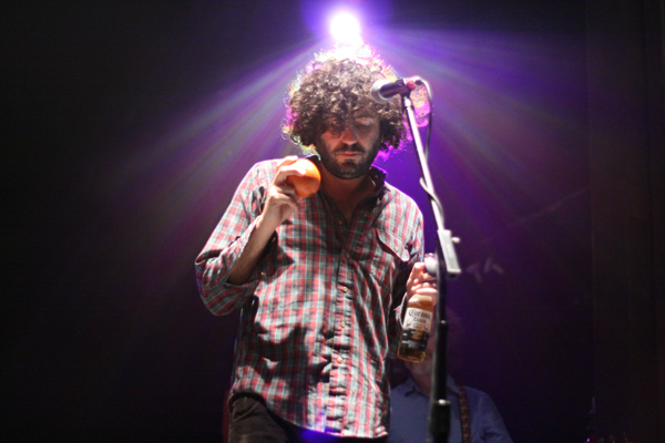 Dan Bejar w/ New Pornographers at Webster Hall in New York, NY, on October 25, 2007.